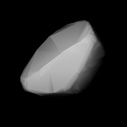 3D convex shape model of 1588 Descamisada, computed using light curve inversion techniques. J. Hanuš, J. Ďurech, M. Brož, B. D. Warner (June 2011). "A study of asteroid pole-latitude distribution based on an extended set of shape models derived by the lightcurve inversion method". Astronomy and Astrophysics 530: A134. ISSN 0004-6361. arXiv